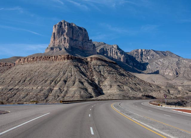 Still trying to make a dent in my massive backlog - these photos are from a trip I took to Carlsbad Cavern National Park in New Mexico and Guadalupe National Park just across the border in Texas. The was my first trip to Carlsbad in about 30+ years. The caverns are immense; I pretty much had the place to myself. It was interesting trying to shoot in the cavern due to the darkness and either artificial or near total lack of lighting, so there are some really long exposure shots here. All in all I love how the shots turned out. After the Caverns I drove to Guadalupe - it is a very small National Park and everything was closed. I might go back there in the future but I'm not sure there is a lot to see and do there.